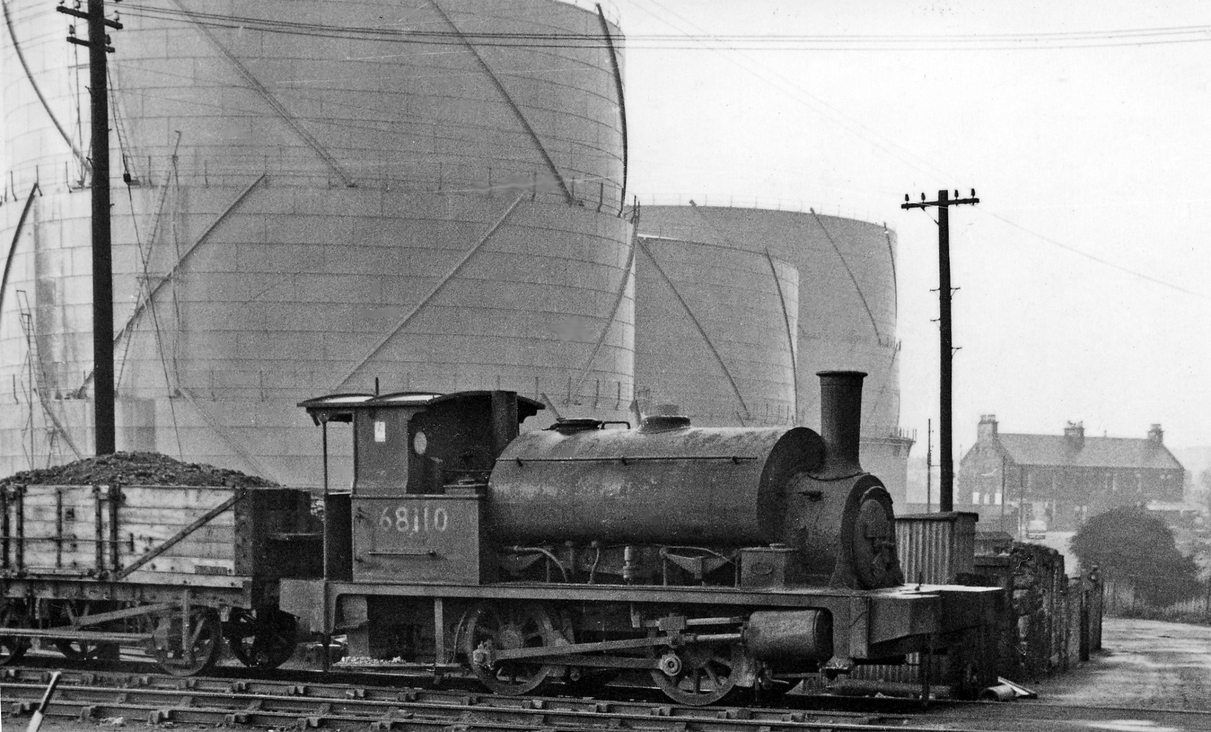 Ex-North British 0-4-0T at Kipps Locomotive Depot, Airdrie. No. 68110 was one of 35 diminutive NB Drummond Y9 0-4-0T's needed for the many narrow and twisty lines in the Docks and industrial premises in Scotland.